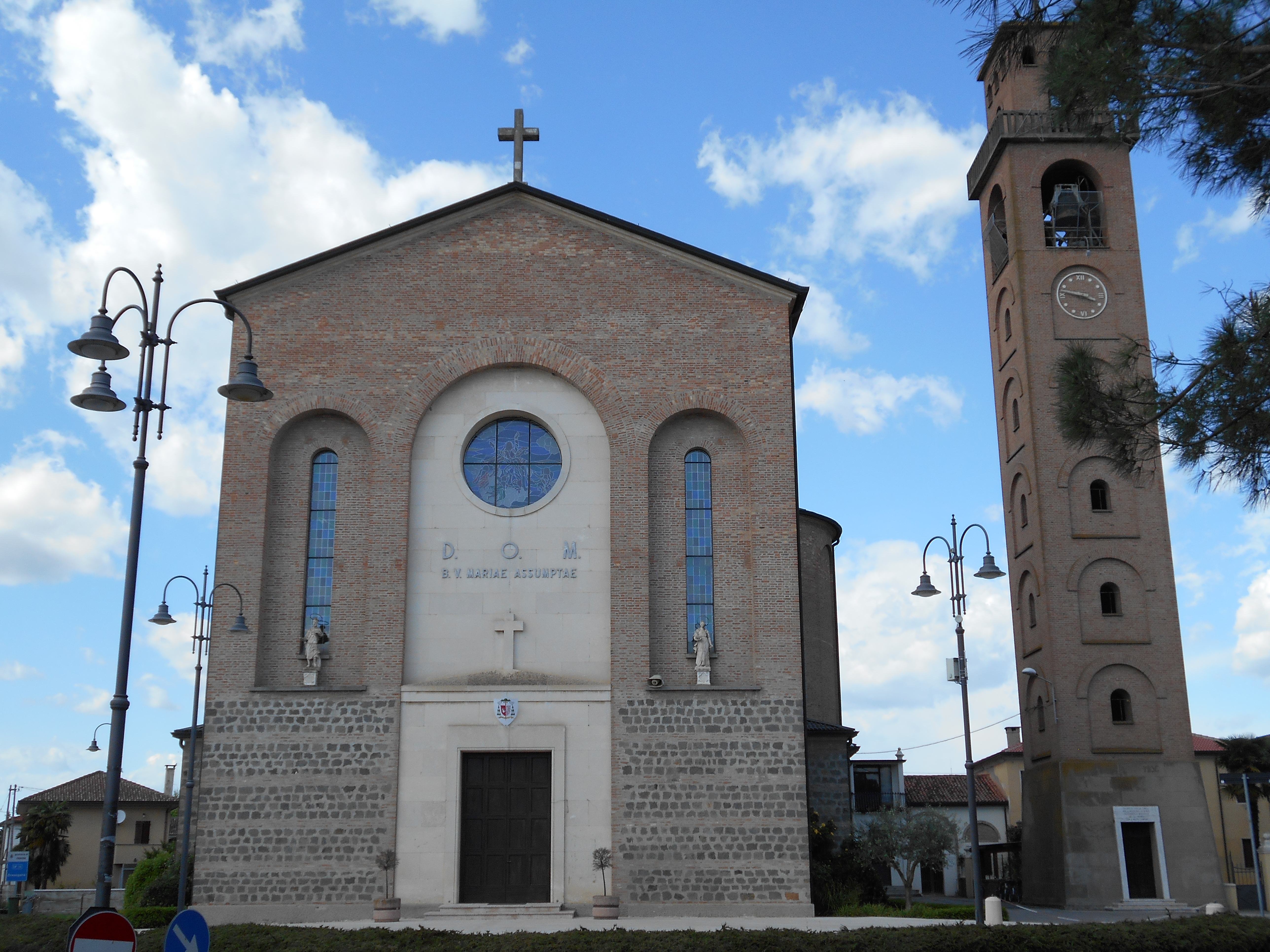 Ponso, the parish church the Assumption